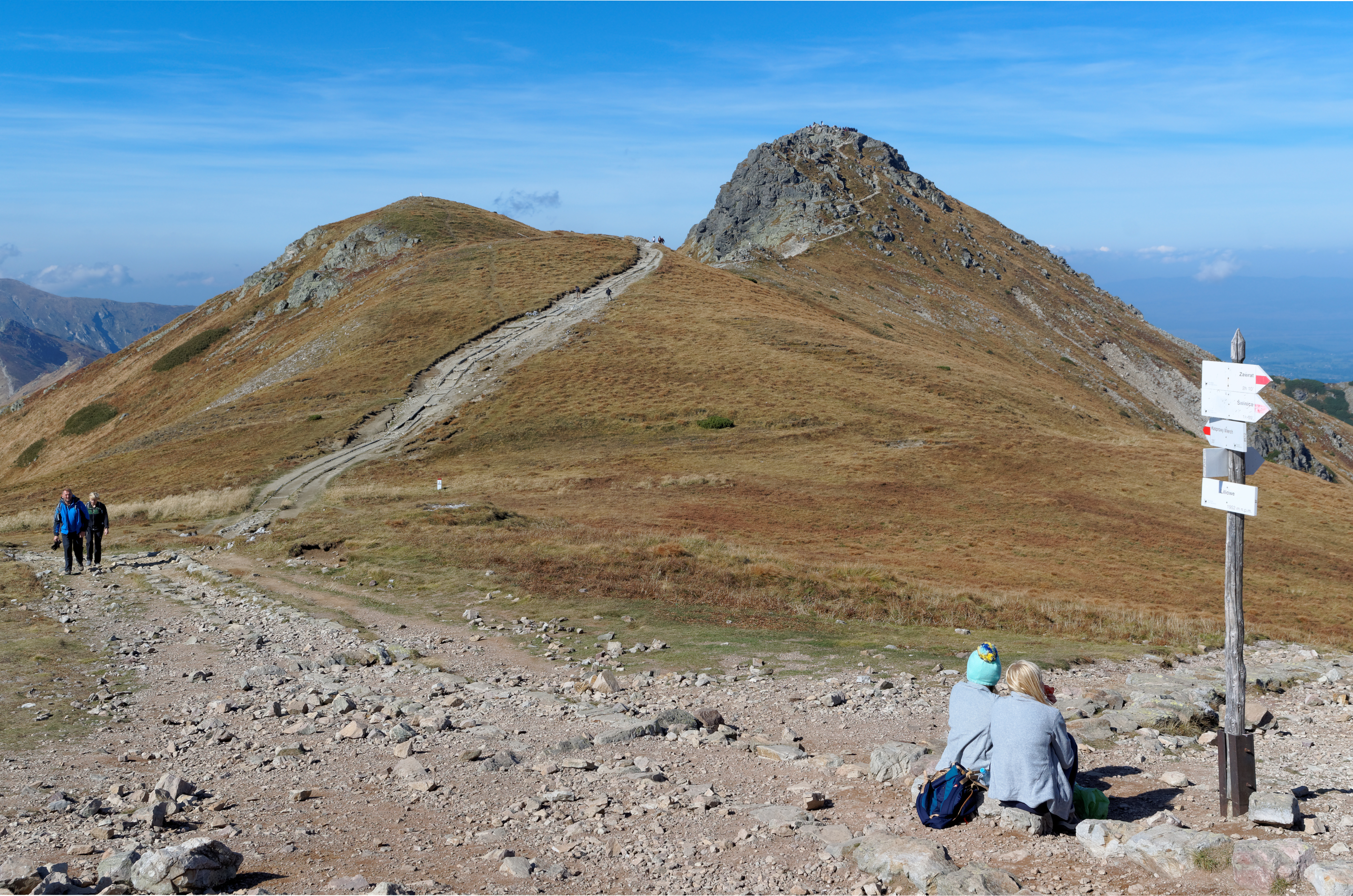 Liliowe Pass in Tatra Mountains